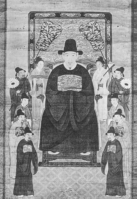 Prince Sho Kyo(Urasoe Oji Choryo)